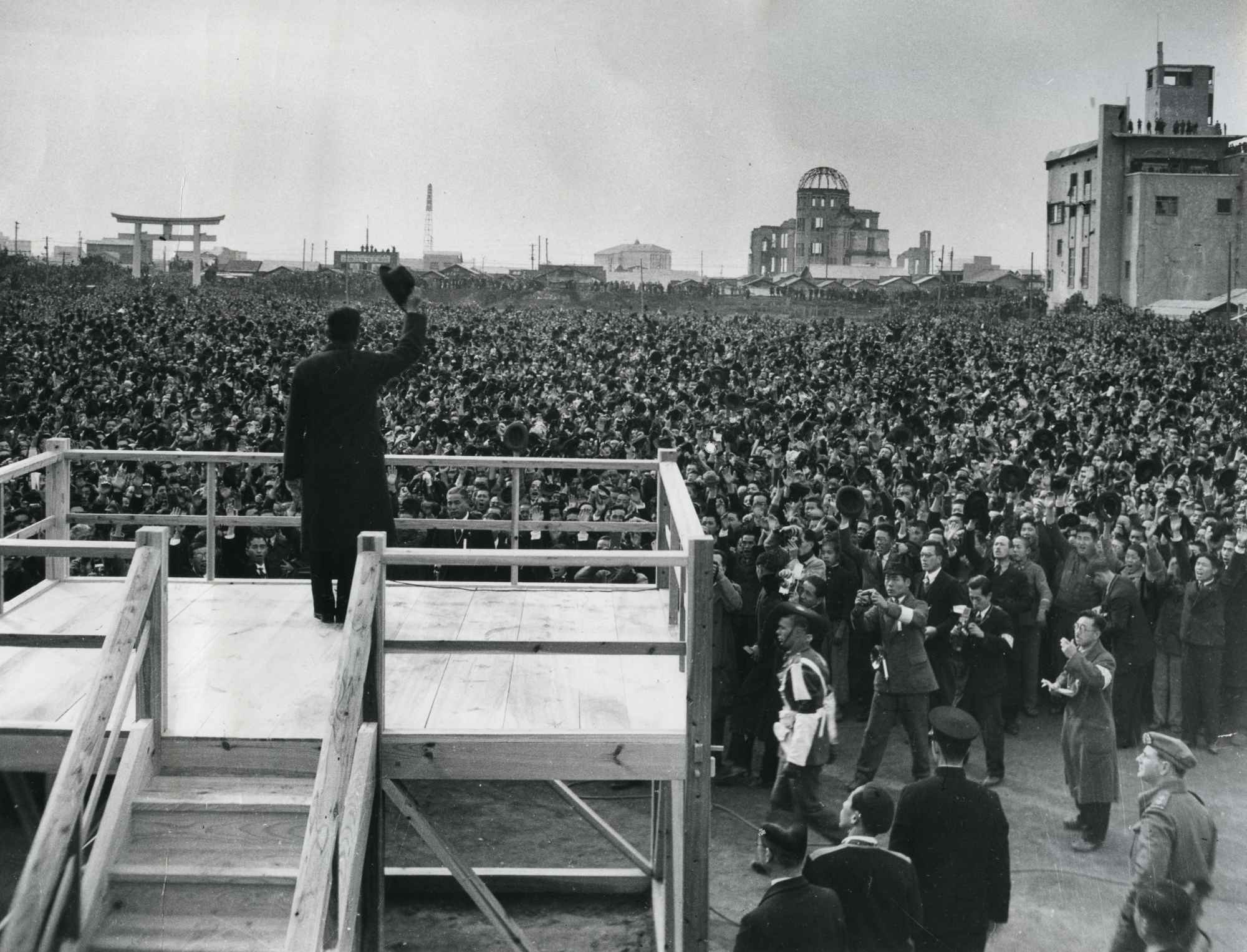 Emperor Showa visit to Hiroshima in 1947